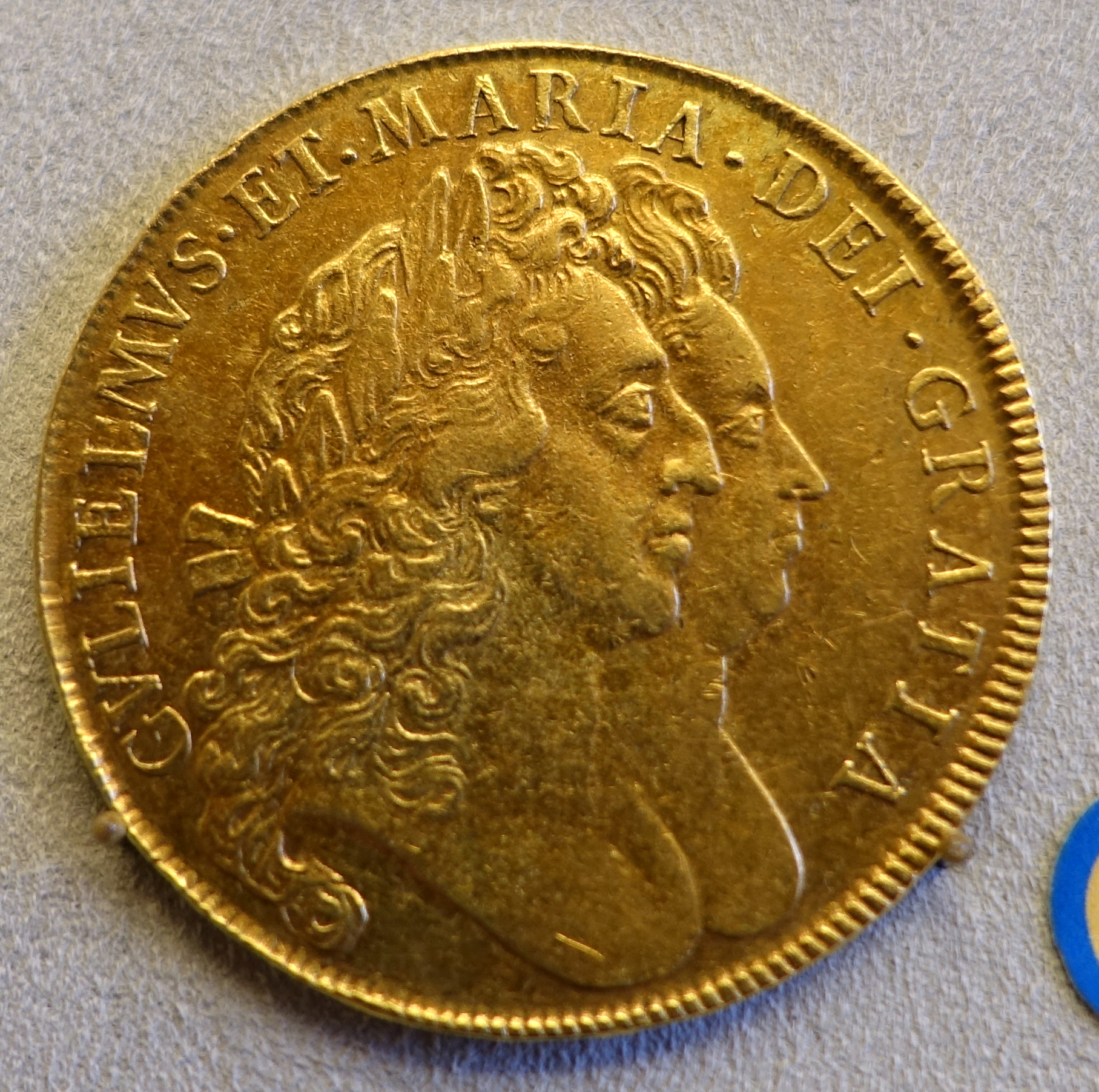 Exhibit in the Bode-Museum, Berlin, Germany. This work is in the public domain because the artist died more than 100 years ago.